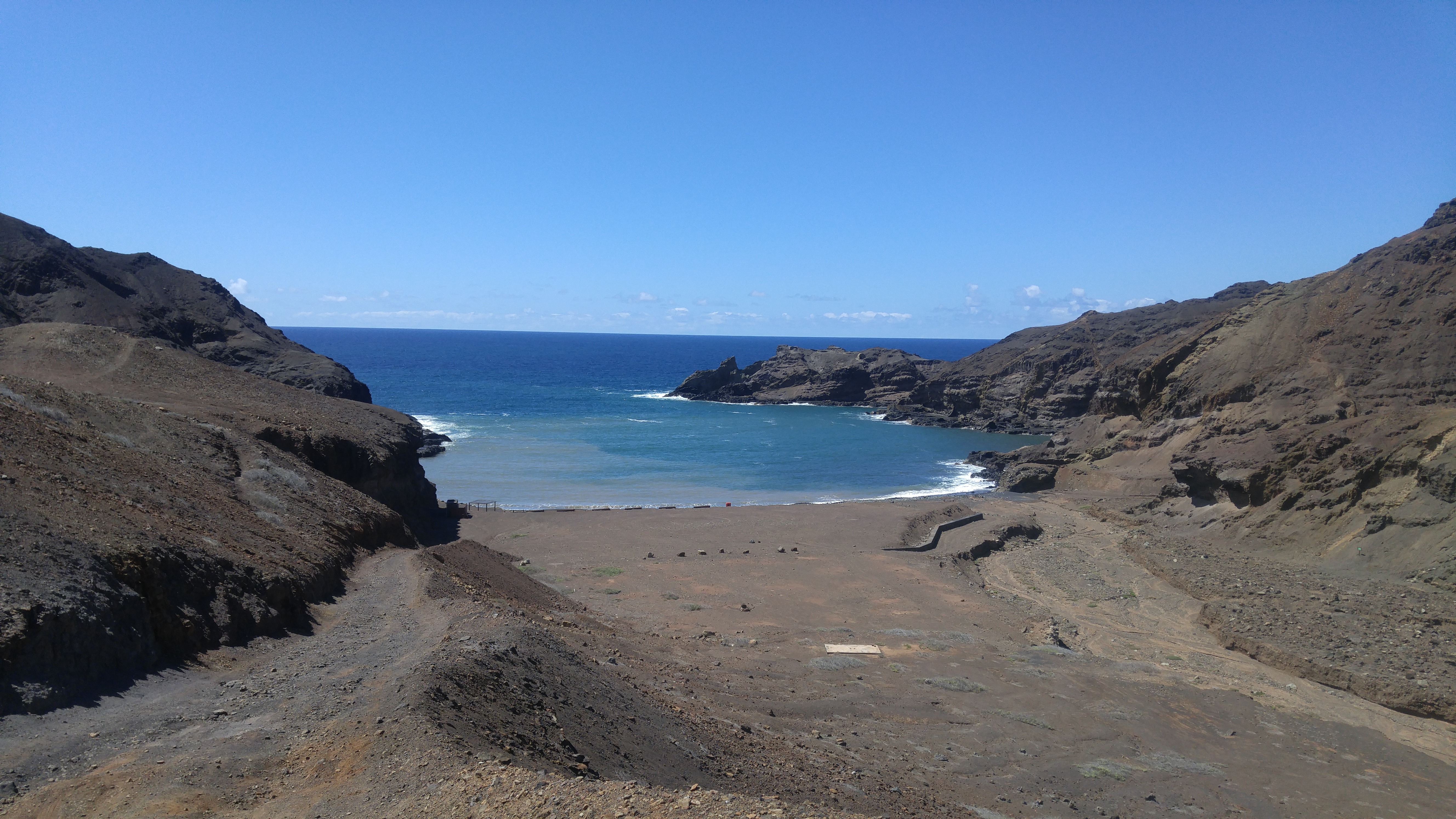 A circular bay surrounded by barren, rocky terrain. There is a flat sandy beach. The water in the bay is brown coloured from the sand circulating in the turbulent waters.